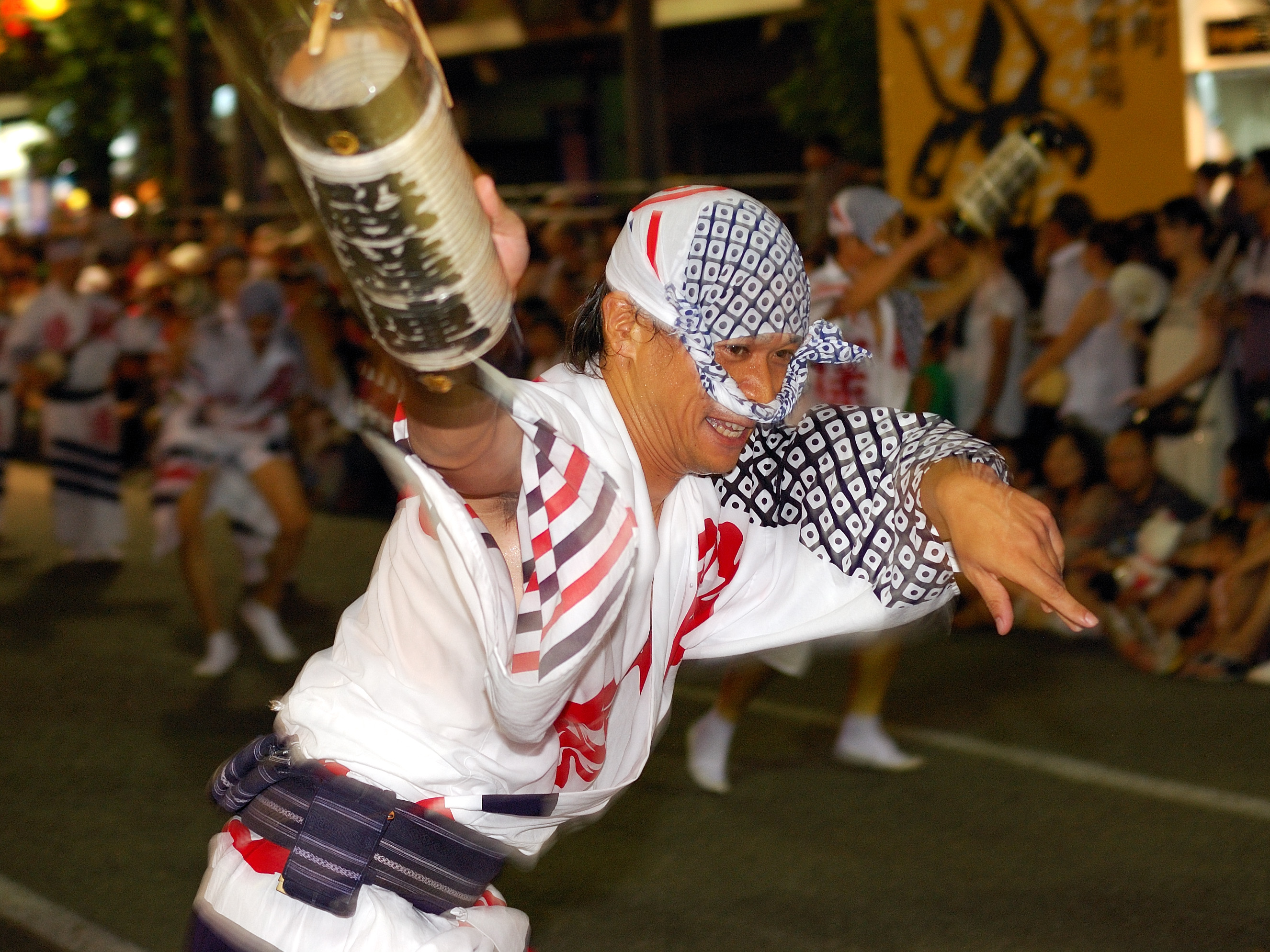 Awa Odori in Tokushima, Japan [2008]. Nikon D50